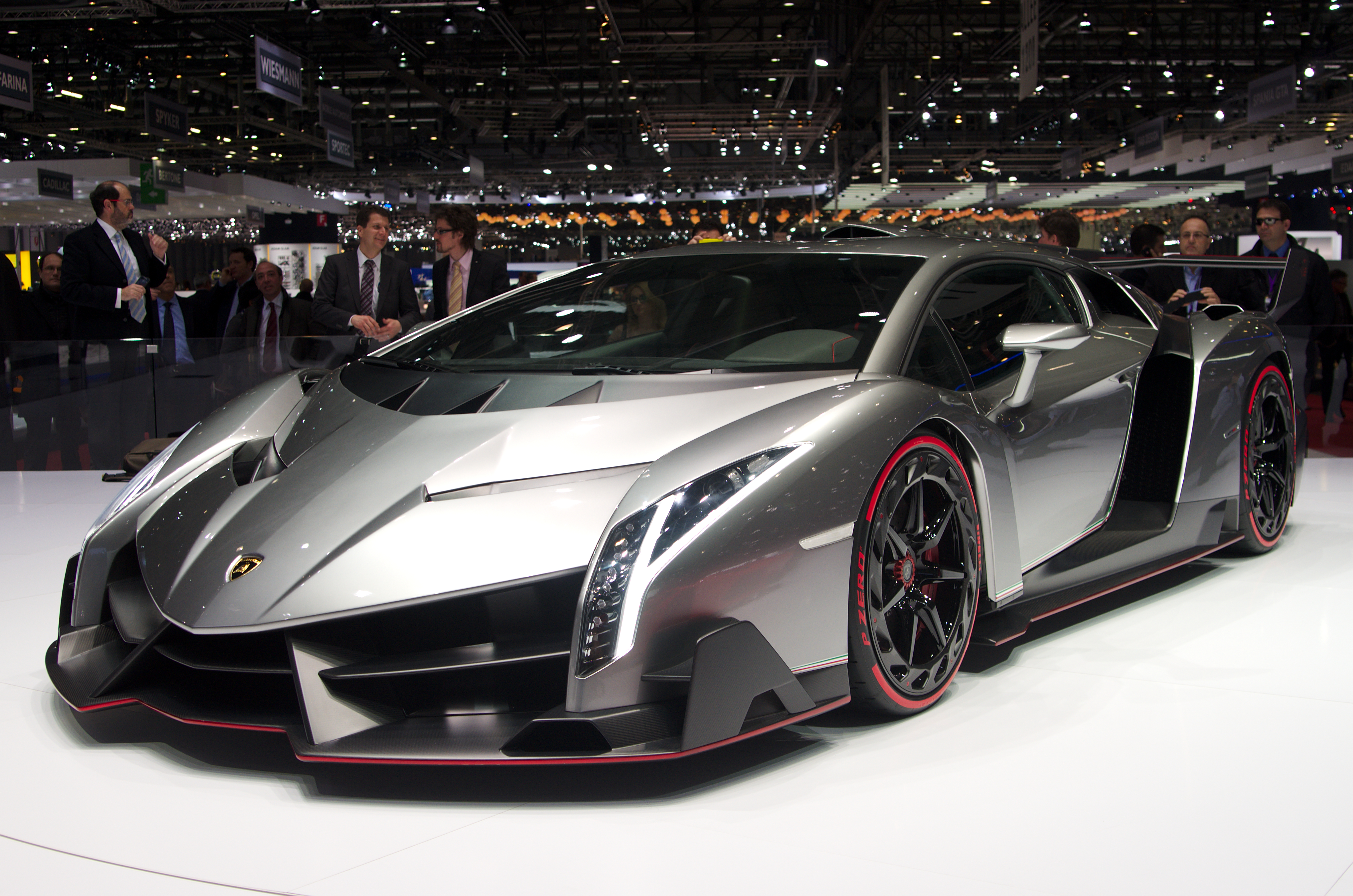 Geneva MotorShow 2013 - Lamborghini Veneno 1